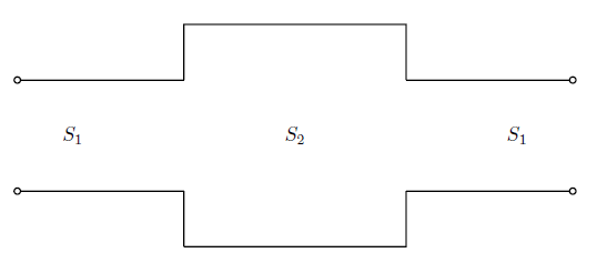 This is a plot used for illustrating a simple example of calculating TL (duct acoustic)